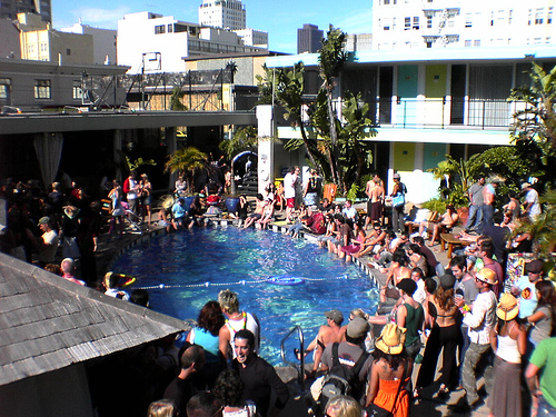 A party in 2006 at the Phoenix Hotel in San Francisco, California